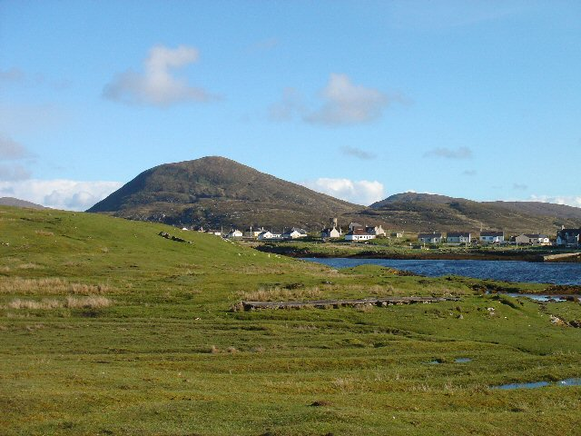 Leverburgh. The town of Leverburgh, viewed from the road leading to the ferry. The hill in the distance is Maodal.